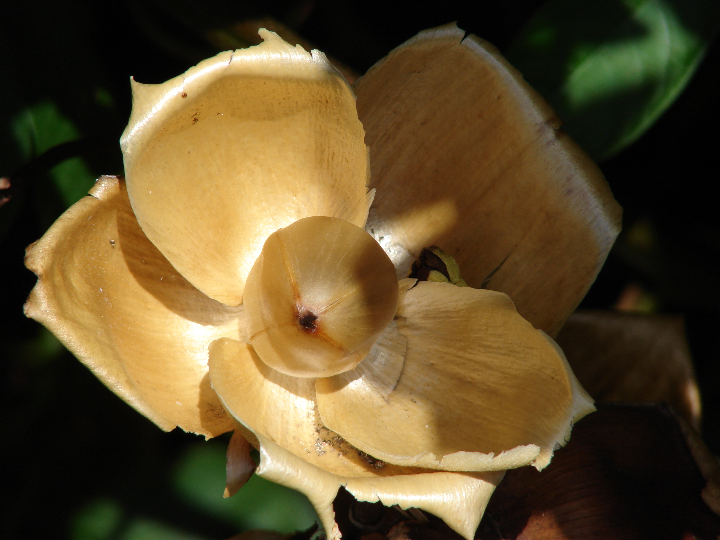 Merremia tuberosa (fruit). Location: Maui, Pukalani